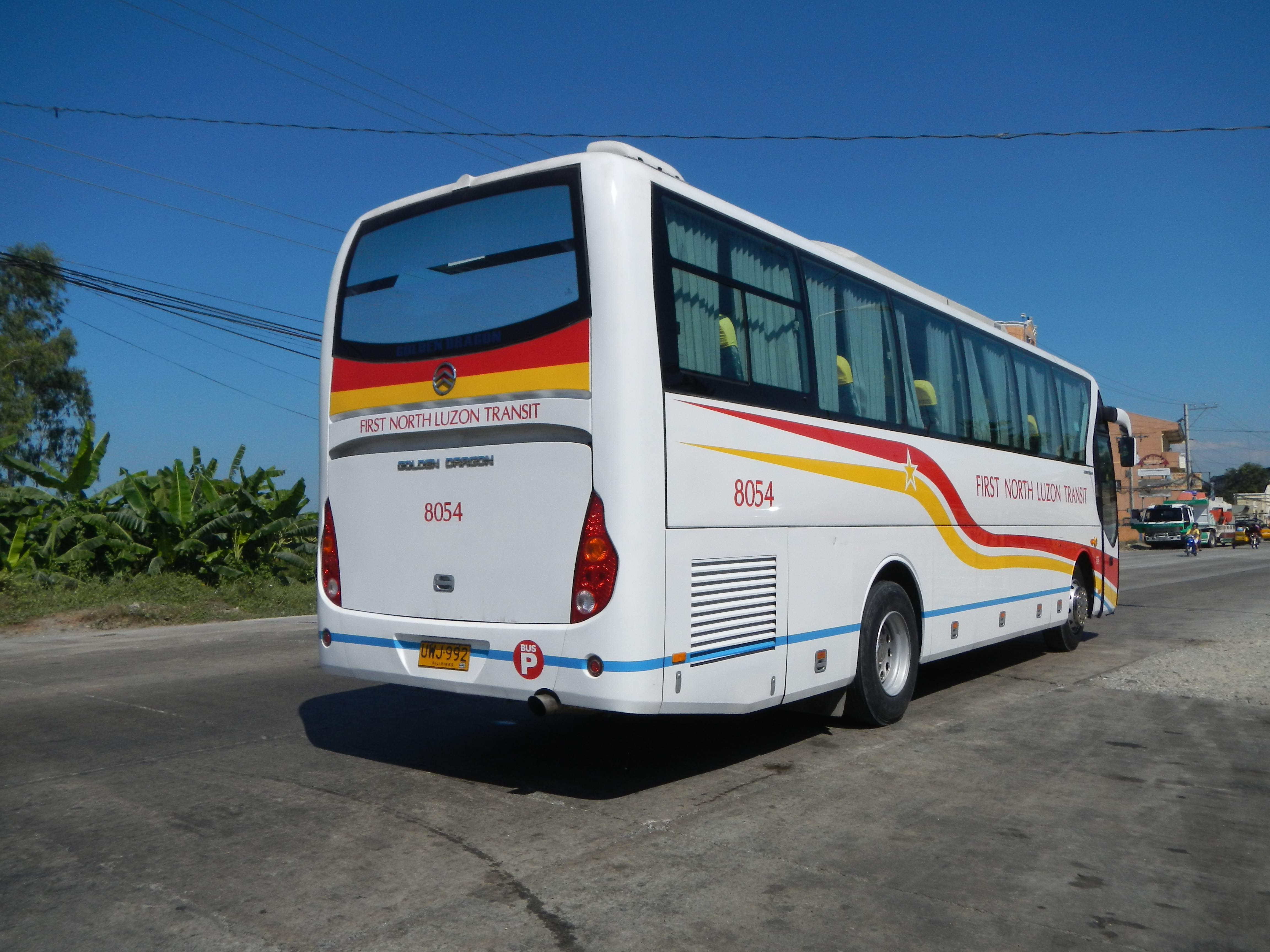 First North Luzon Transit in Photos of MacArthur Highway in Urdaneta, Pangasinan